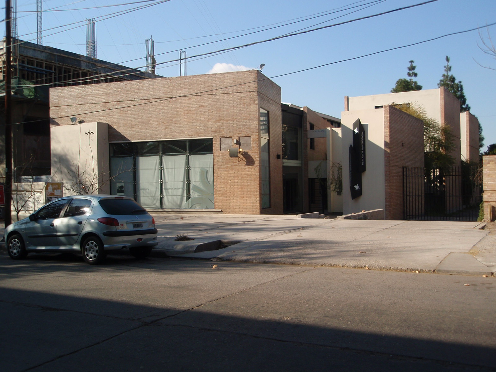 FRM UTN Residencias Universitarias